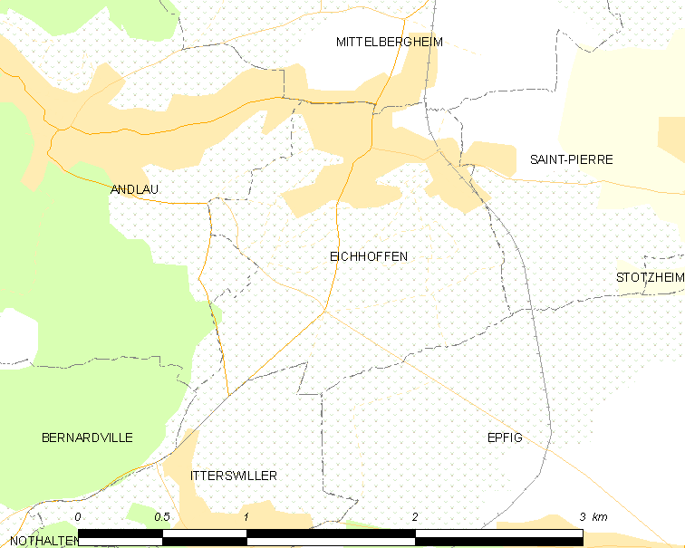 Map of French municipality